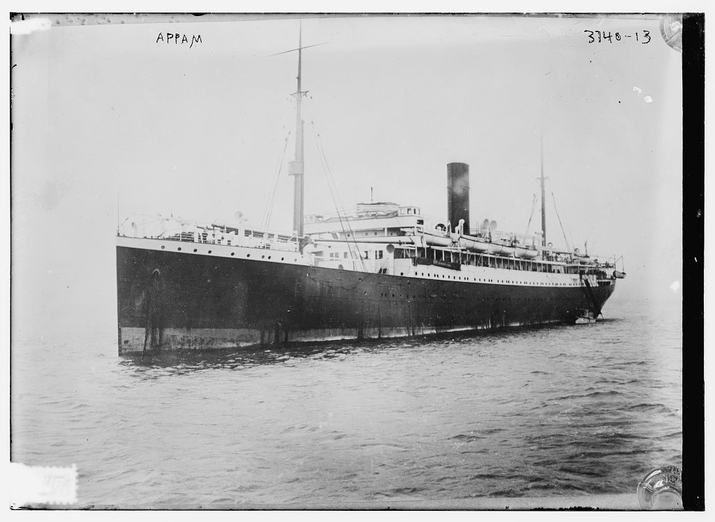 The S. S. Appam circa 1915 facing left